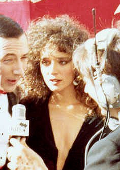 Pee Wee Herman on the red carpet at the 60th Annual Academy Awards, 4/11/88